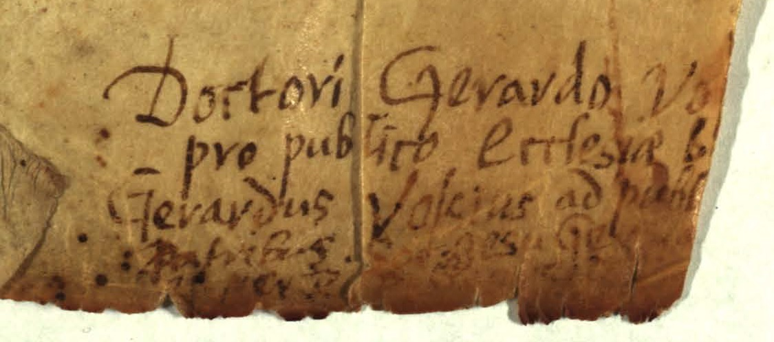 Codex Monacensis, a note on folio 1r - "Doctori Gerardo Vossio pro publico ecclesiae bono"